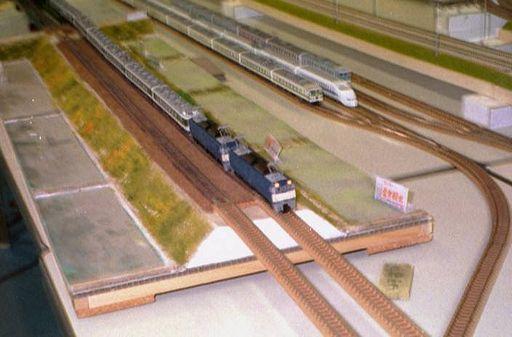 Model train set layout of module type example. Scenery is made on plywood, and the rail with the track bed is connected with the next module.